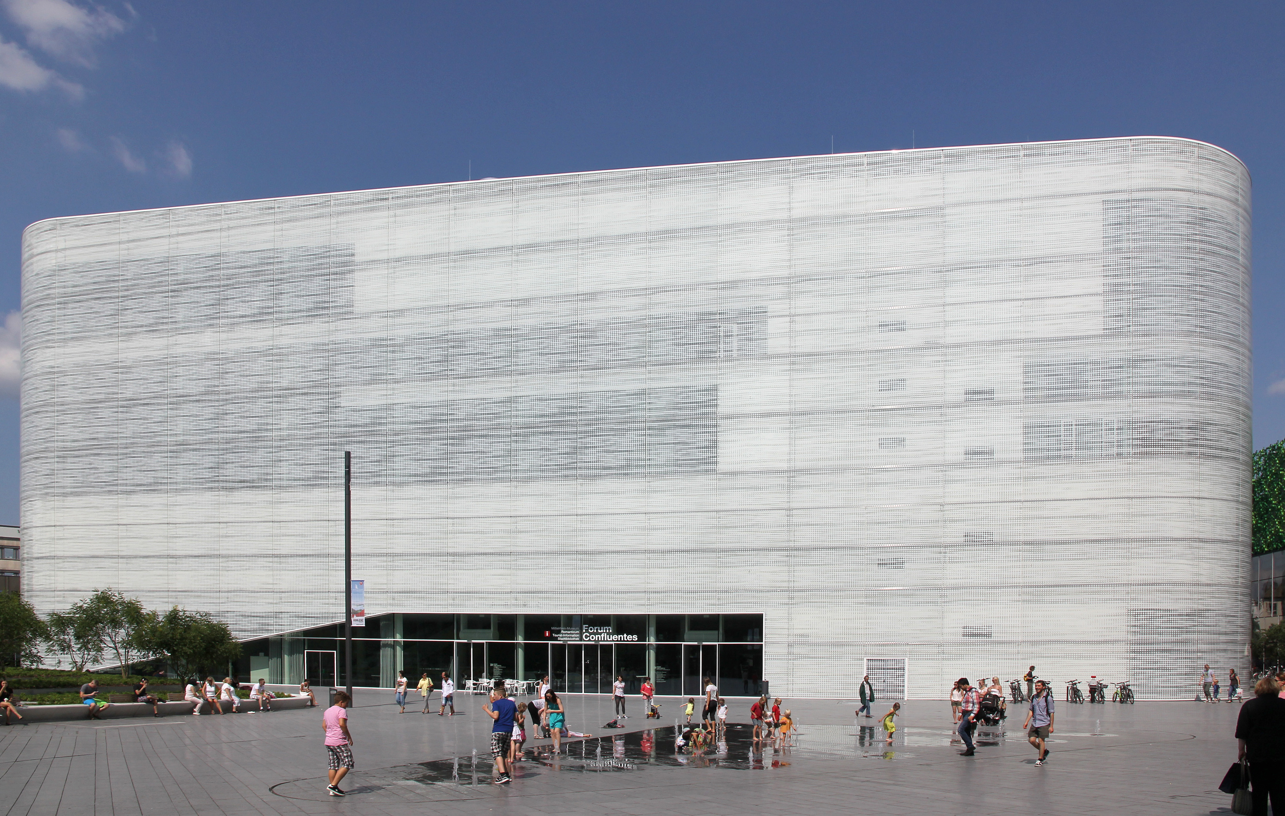 Forum Confluentes in Koblenz